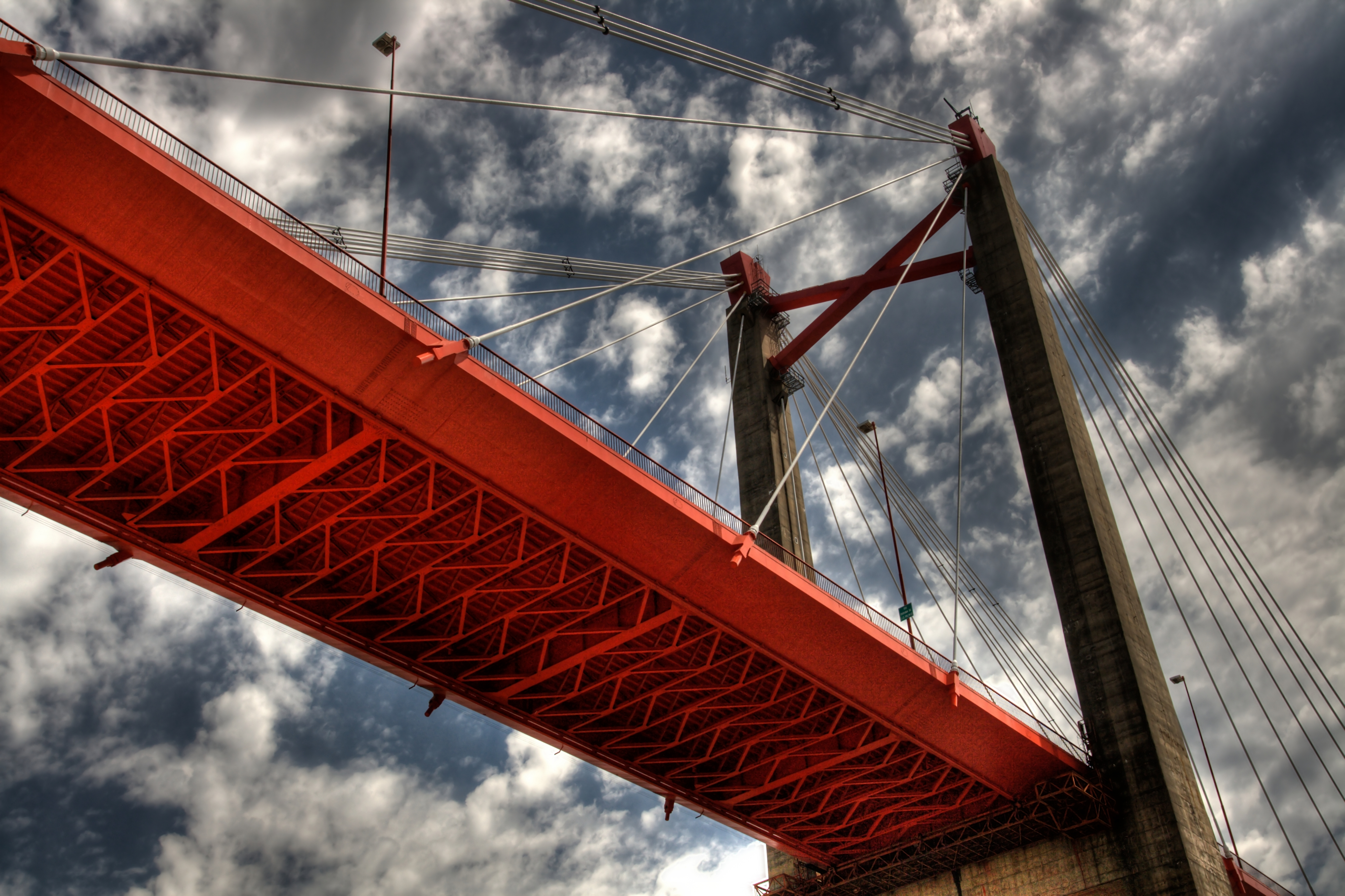 The bridge from below